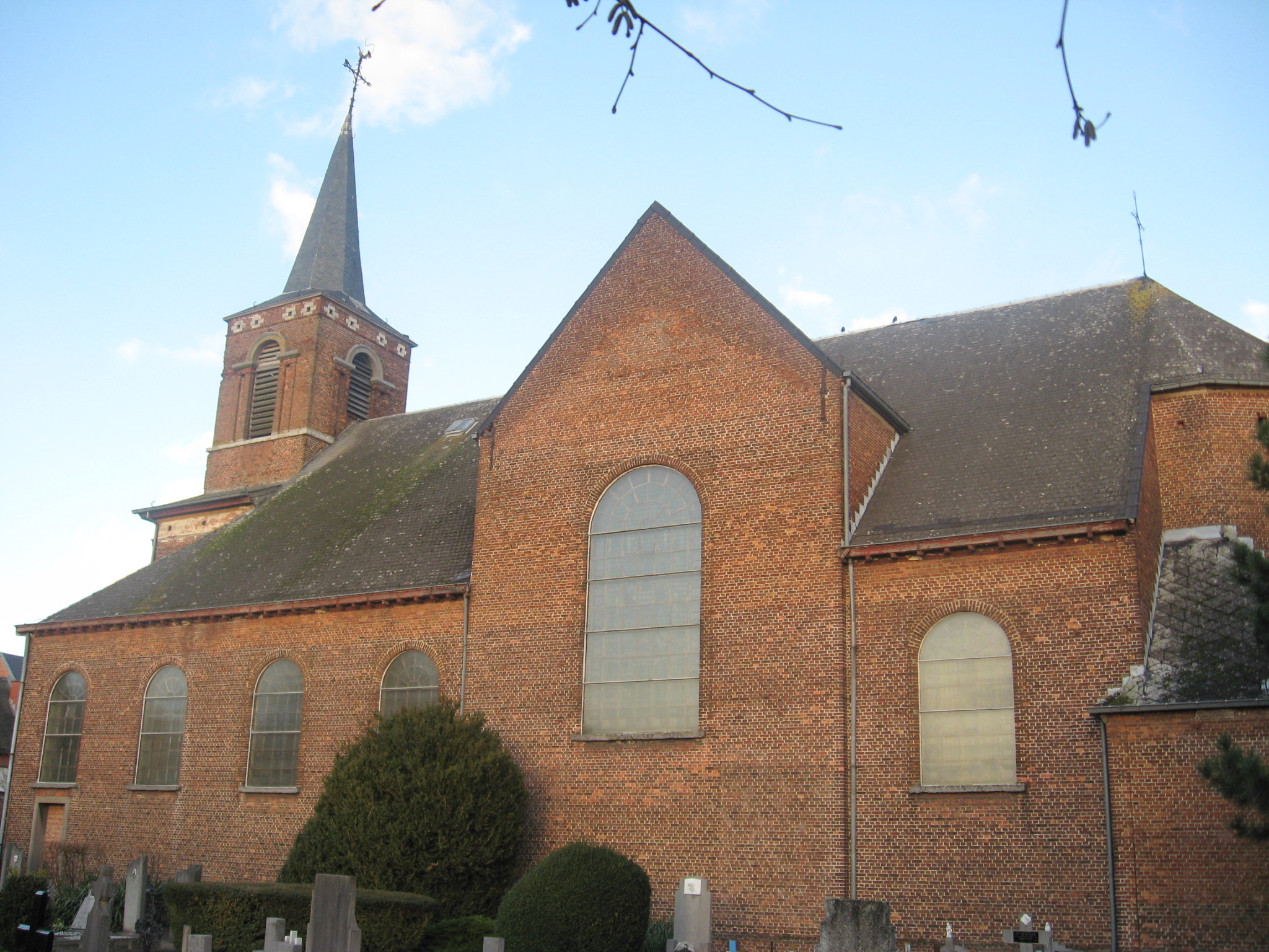 Church of Saint Anthony the Abbot in Wolfsdonk, Langdorp, Aarschot, Flemish Brabant, Belgium